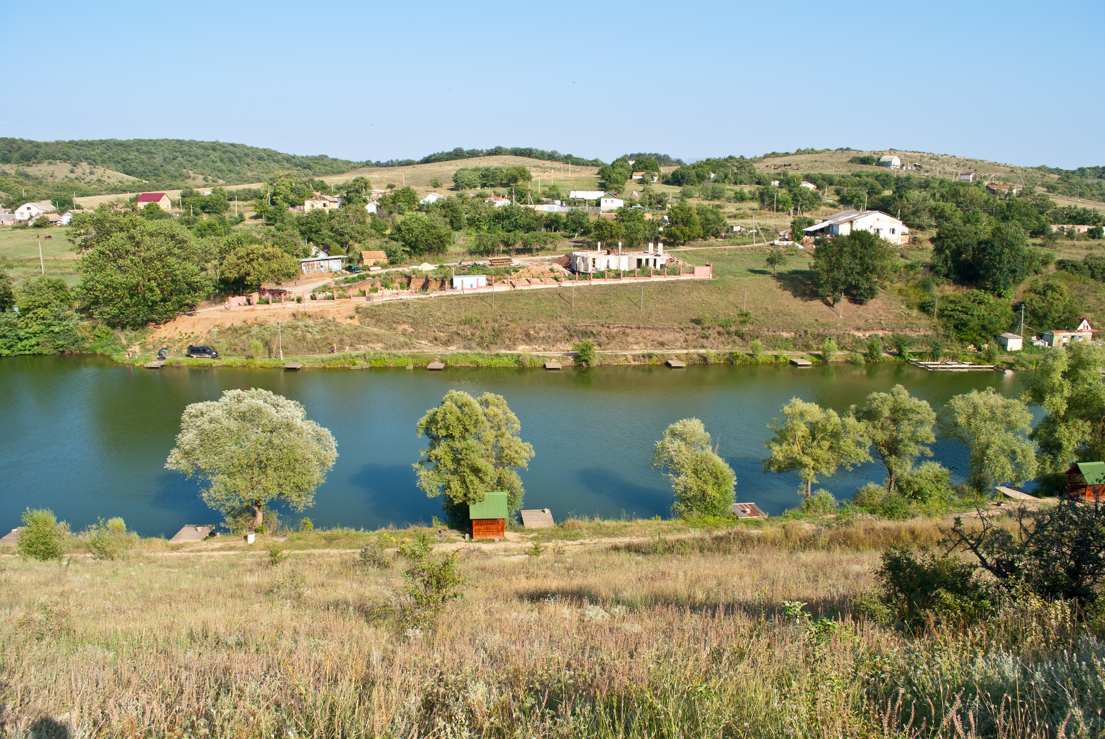 Photo of the village Klinivka (Simferopol district, Crimea, Ukraine)